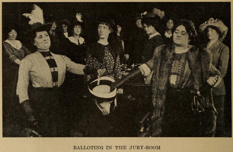 A scene from the Vitagraph silent film version of the photoplay "The First Woman Jury in America" by Alma Webster Hall Powell.